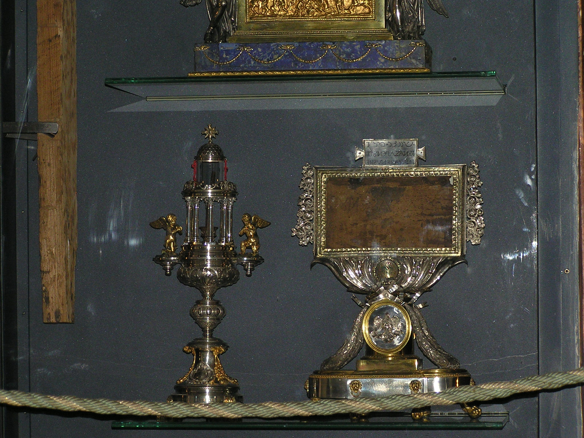 Titulus Crucis relic kept at the Cappella delle Reliquieat in Basilica of Santa Croce in Gerusalemme in Rome, Italy